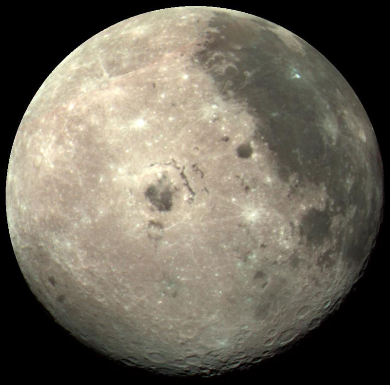 This color image of the Moon was taken by the Galileo spacecraft at 9:35 a.m. PST Dec. 9, 1990, at a range of about 350,000 miles (560,000 km). The color composite uses monochrome images taken through violet, red, and near-infrared filters. The concentric, circular Orientale basin, 600 miles (970 km) across, is near the center; the nearside is to the right, the far side to the left. At the upper right is the large, dark Oceanus Procellarum; below it is the smaller Mare Humorum. These, like the small dark Mare Orientale in the center of the basin, formed over 3 billion years ago as basaltic lava flows. At the lower left, among the southern cratered highlands of the far side, is the South-Pole-Aitken basin, similar to Orientale but twice as great in diameter and much older and more degraded by cratering and weathering. The cratered highlands of the near and far sides and the Maria are covered with scattered bright, young ray craters.